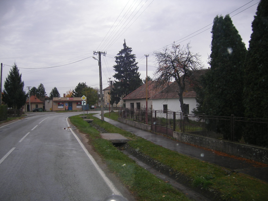 Nedanovce